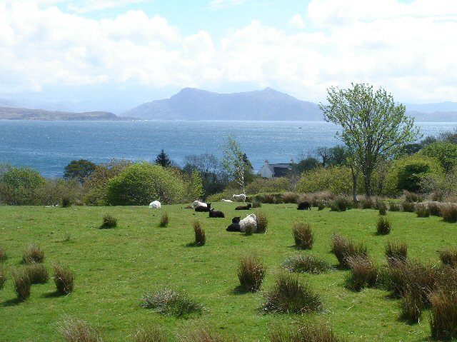 Ferindonald, Skye. Looking south-east over the Sound of Sleat towards Knoydart and North Morar.